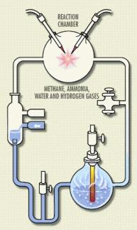 The Miller-Urey experiment generated electric sparks - meant to model lightning - in a mixture of gases thought to resemble Earth's early atmosphere.